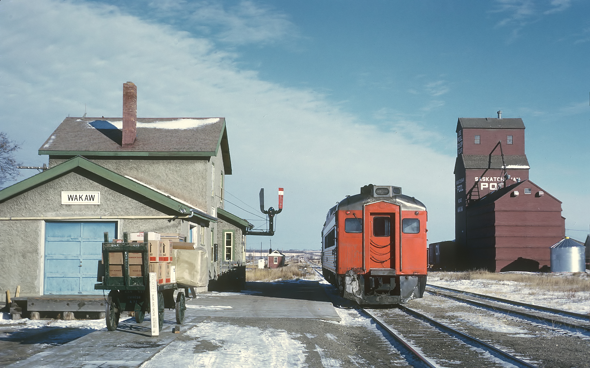 CN 6208 RDC2 at Wakaw, SK